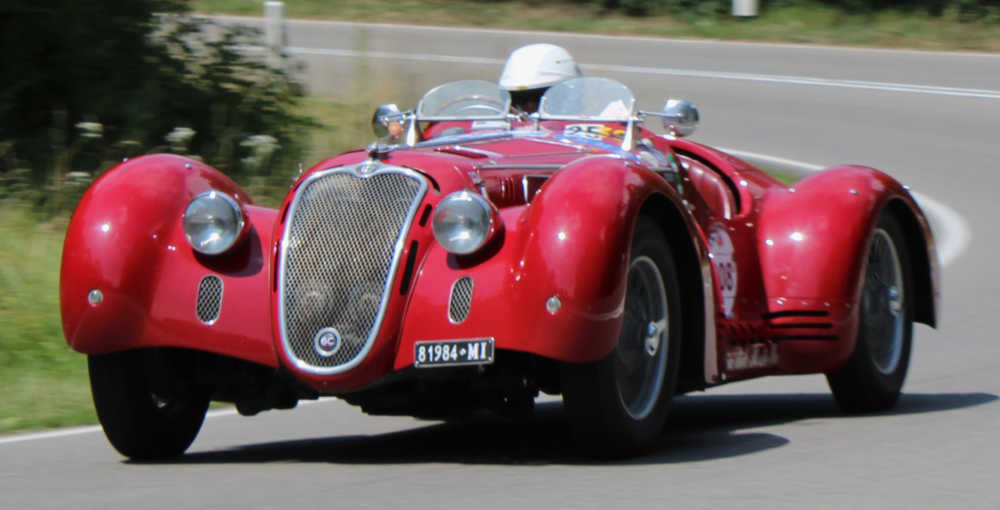 Alfa Romeo 6C2500 Super Sport Corsa (1939) at Solitude Revival 2019